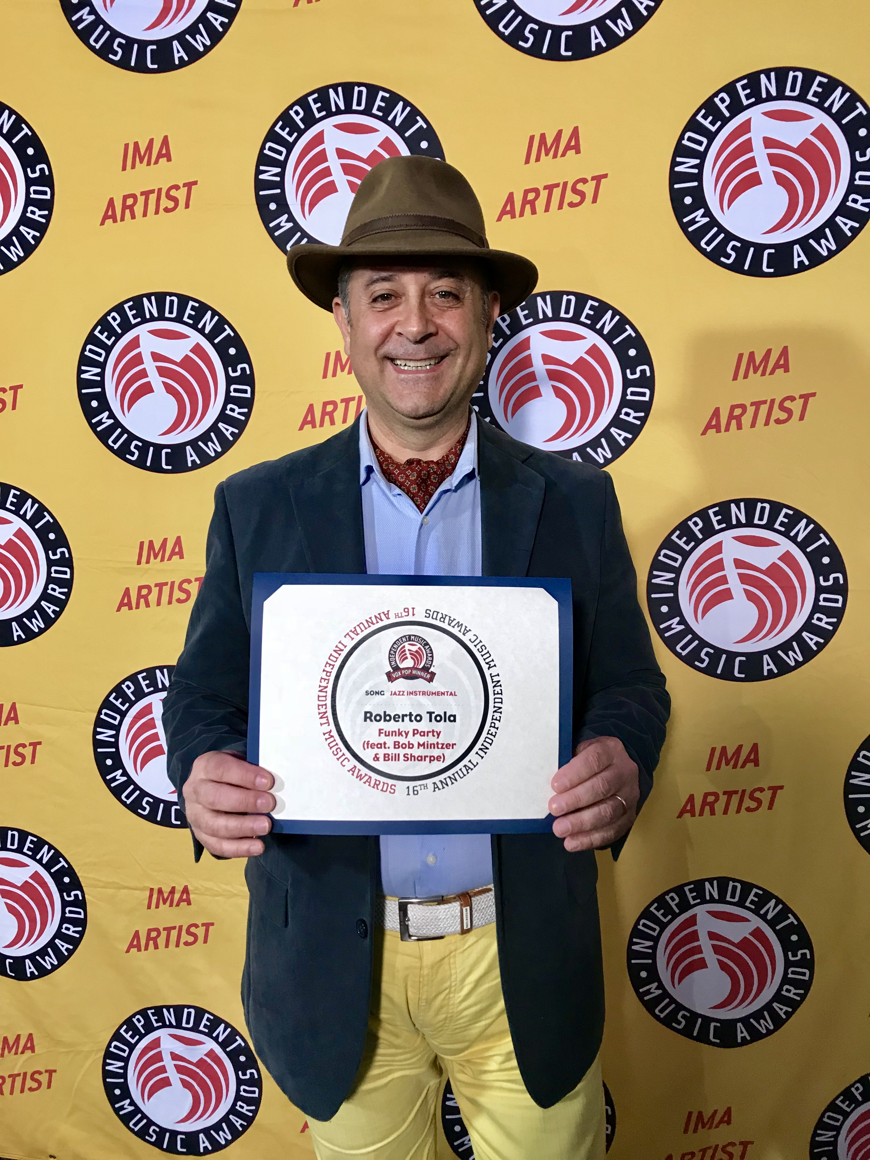 Roberto Tola - 16th Independent Music Awards - VOX POPULI WINNER